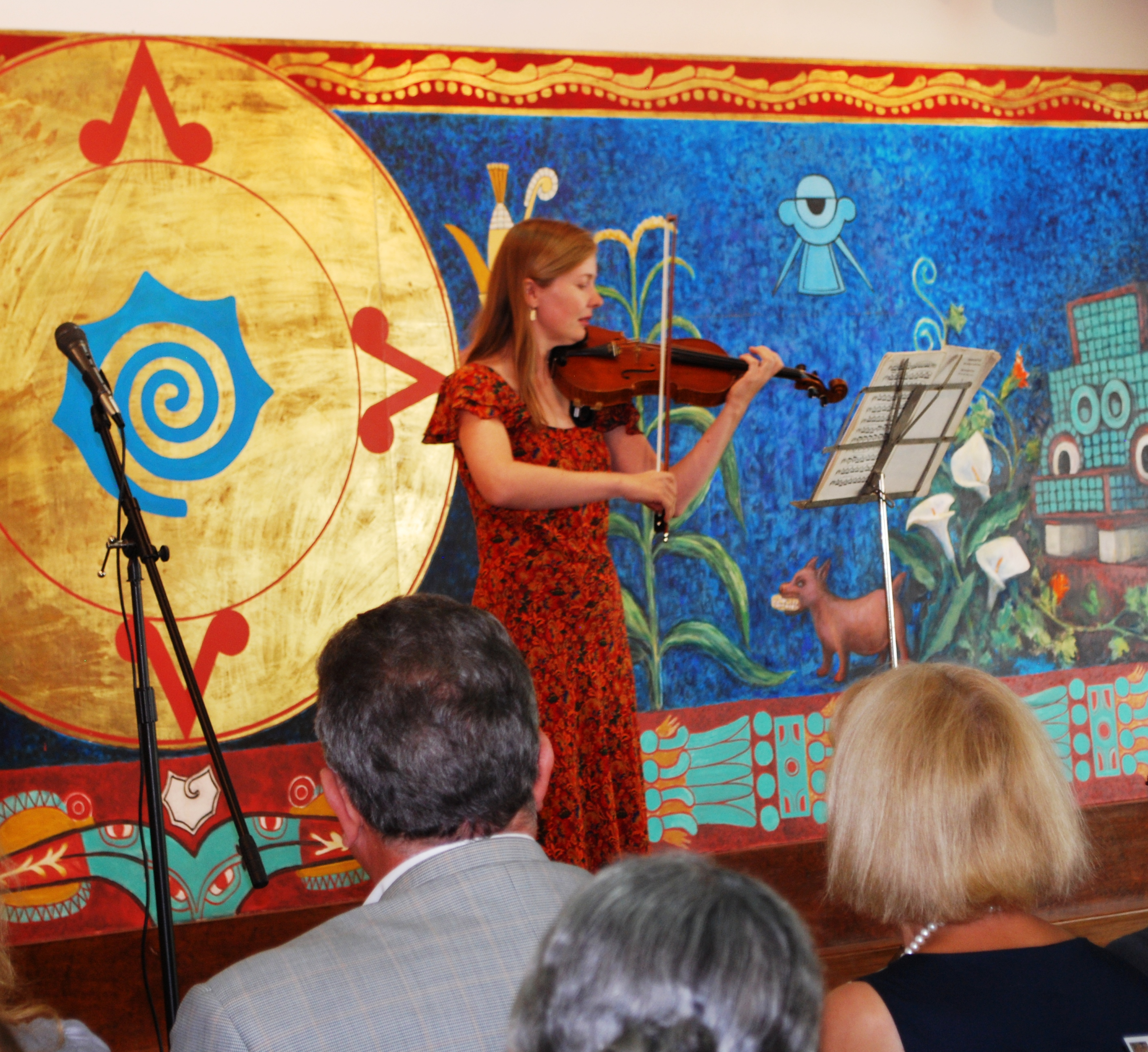 Violinist Anna Litvinenkova playing at the opening of Una mirada al Arte Ruso at the Museo Nacional de Acuarela in Mexico City